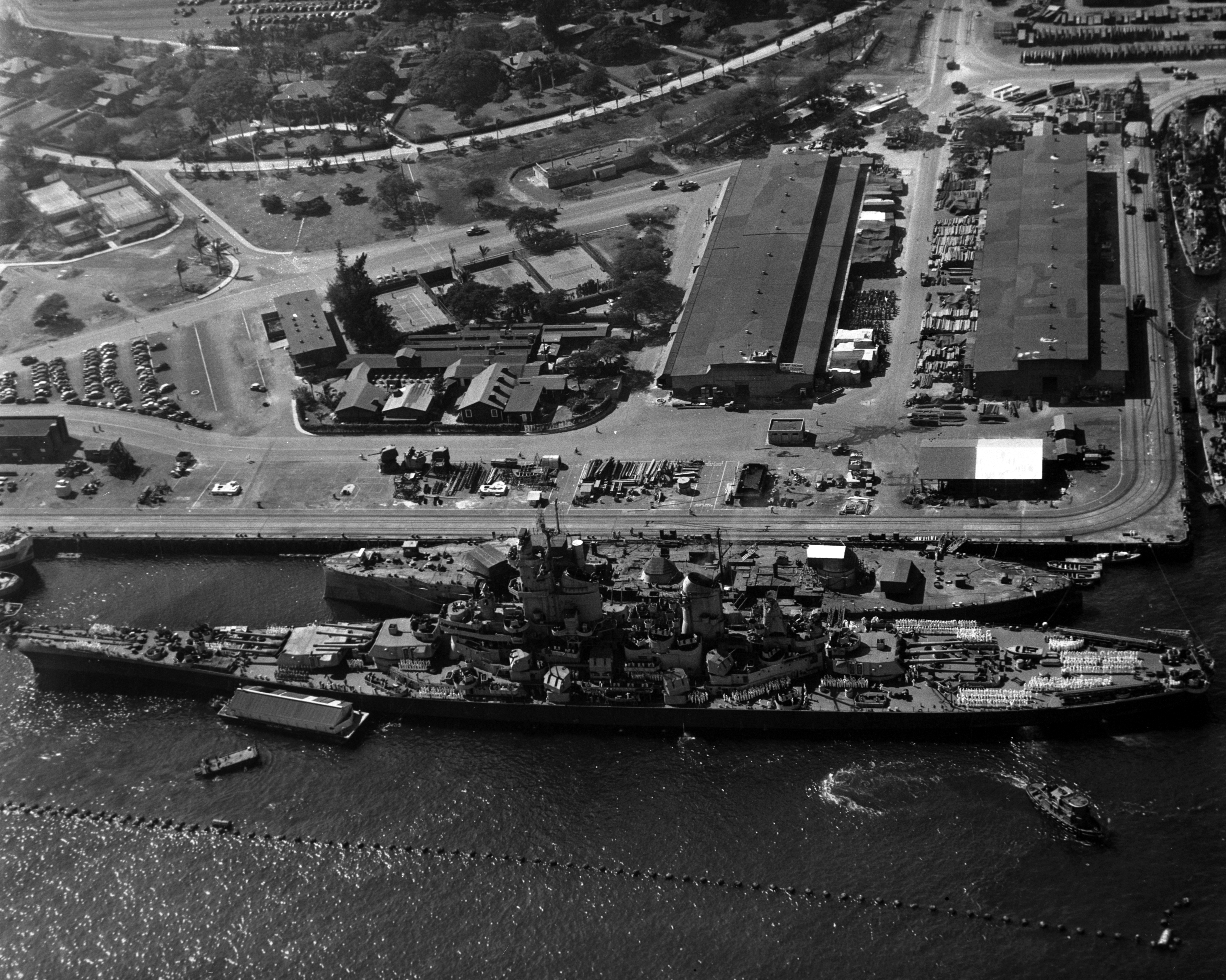 Tied up outboard of the hulk of USS Oklahoma (BB-37), at the Pearl Harbor Navy Yard, 11 November 1944. Note: anti-torpedo netting outboard of the ships; great difference in lengths of these two battleships. U.S. Naval History and Heritage Command Photograph.